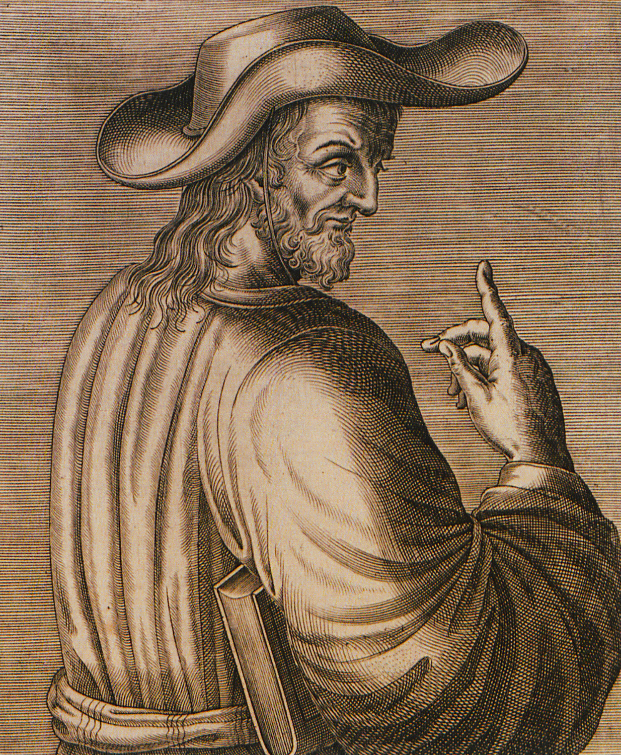 Engraved portrait of Theodorus Gaza(c. 1400 – 1475) (Greek: Θεόδωρος Γαζής, Theodoros Gazis